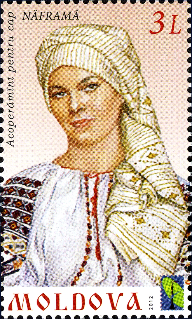 Stamps of Moldova